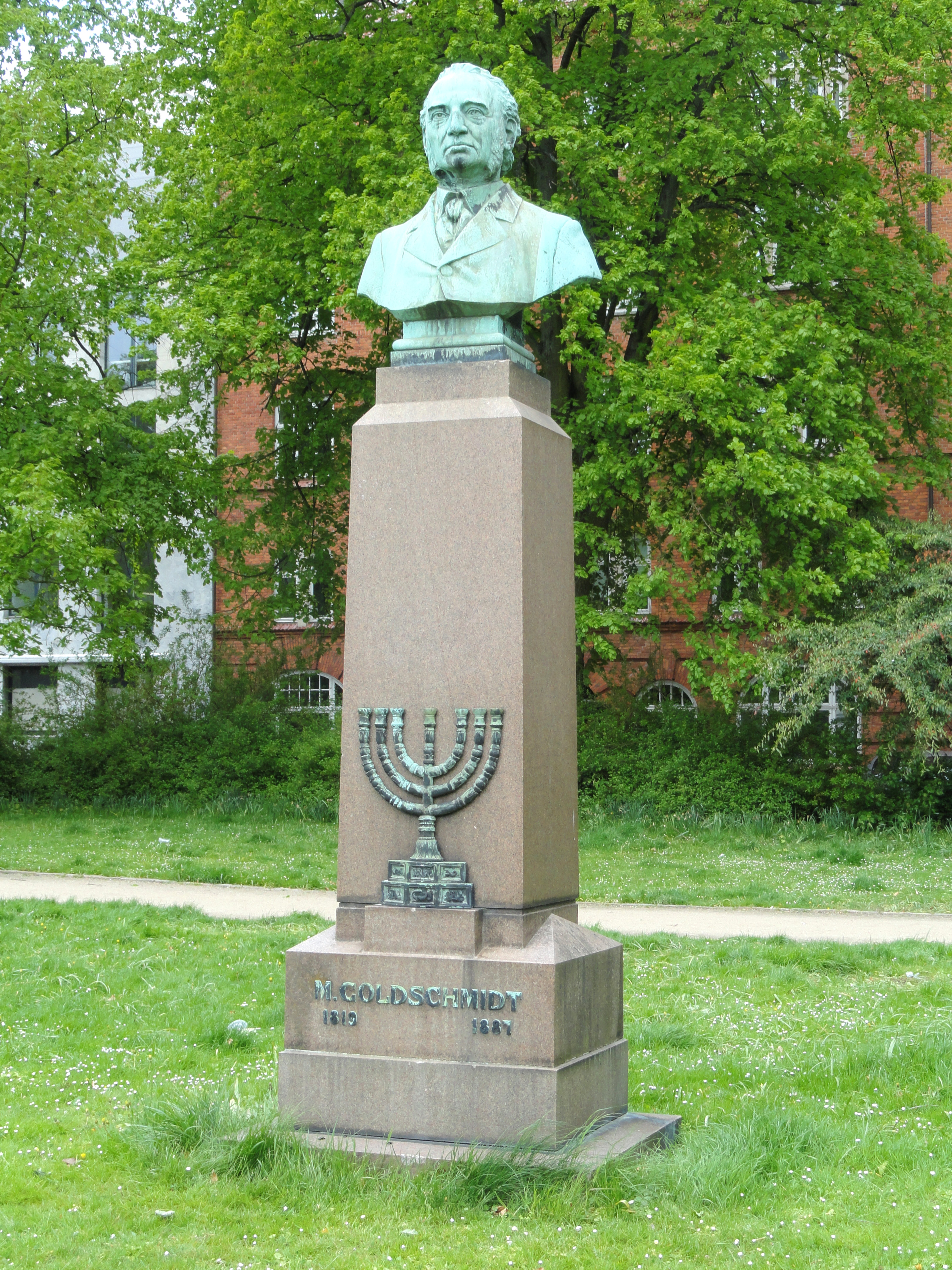 Meïr Aron Goldschmidt memorial, Frederiksberg, Copenhagen, Denmark. This artwork is now in the public domain because the artist died more than 70 years ago.